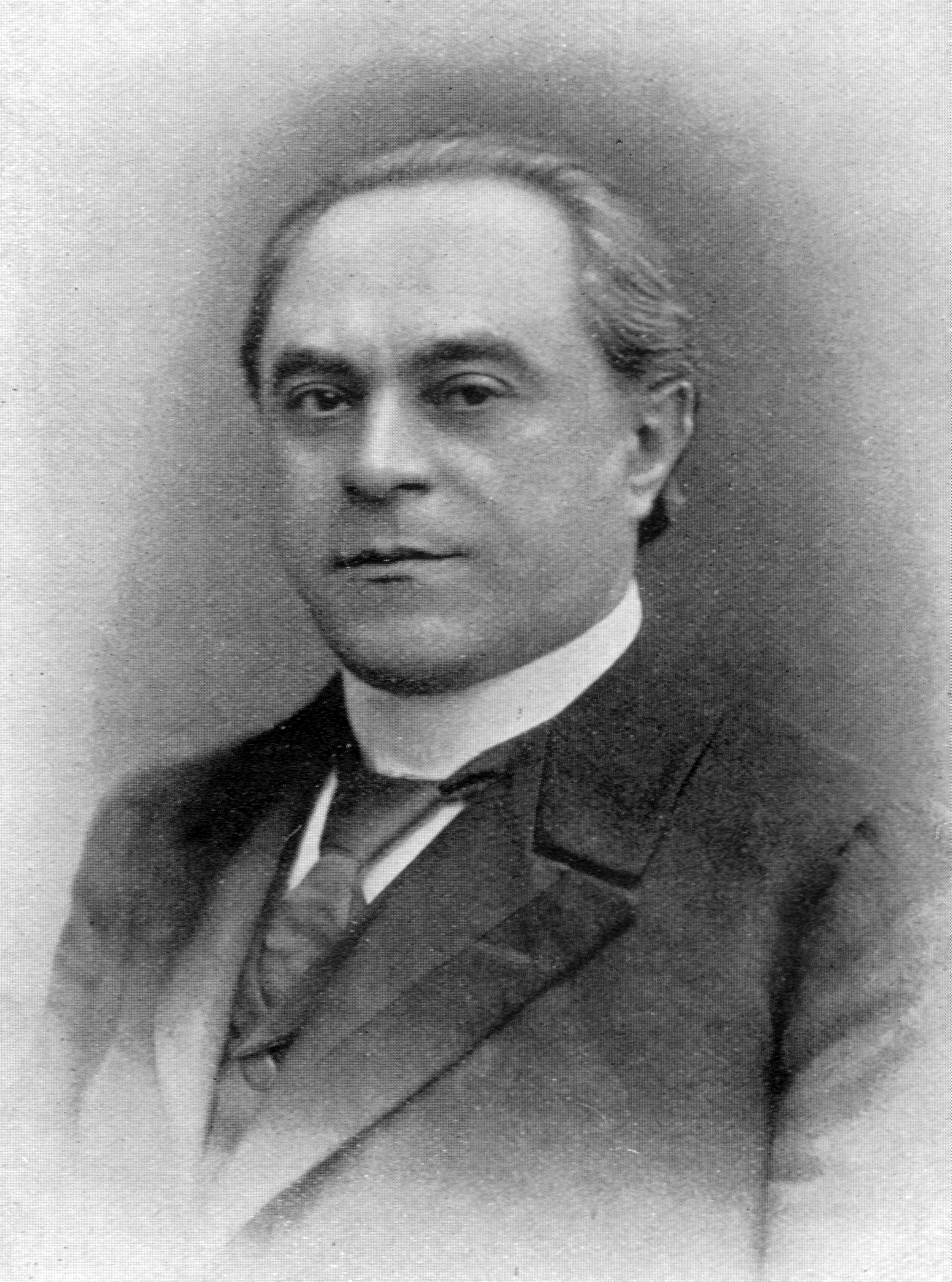 Scanned from Modern Musicians by J. Cuthbert Hadden (First published by T.N.Foulis in 1913) - September 1918 Foulis reprint. Book is in the Public Domain in the US and UK. Scanned as 1200 dpi bitmap (photo) then converted to jpeg.